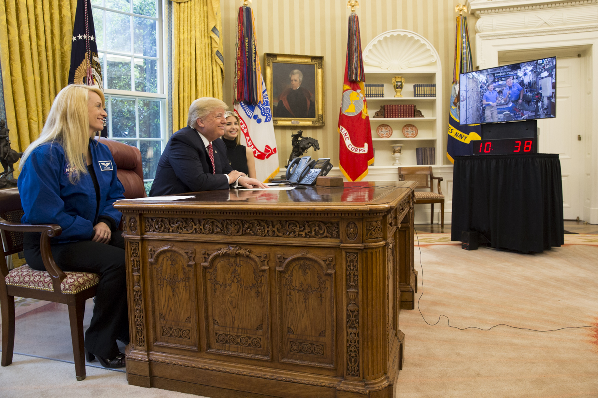 President Donald Trump talks via video conference with NASA astronauts Commander Peggy Whitson and Jack Fischer aboard the International Space Station, in the Oval Office on Monday, April 24, 2017. President Trump, along with Mrs. Ivanka Trump and NASA astronaut Kate Rubins, called to congratulate Commander Whitson for breaking the record for most time in space of any American astronaut, and to commend her for her work promoting women in STEM fields. (Official White House Photo by Benjamin Applebaum)